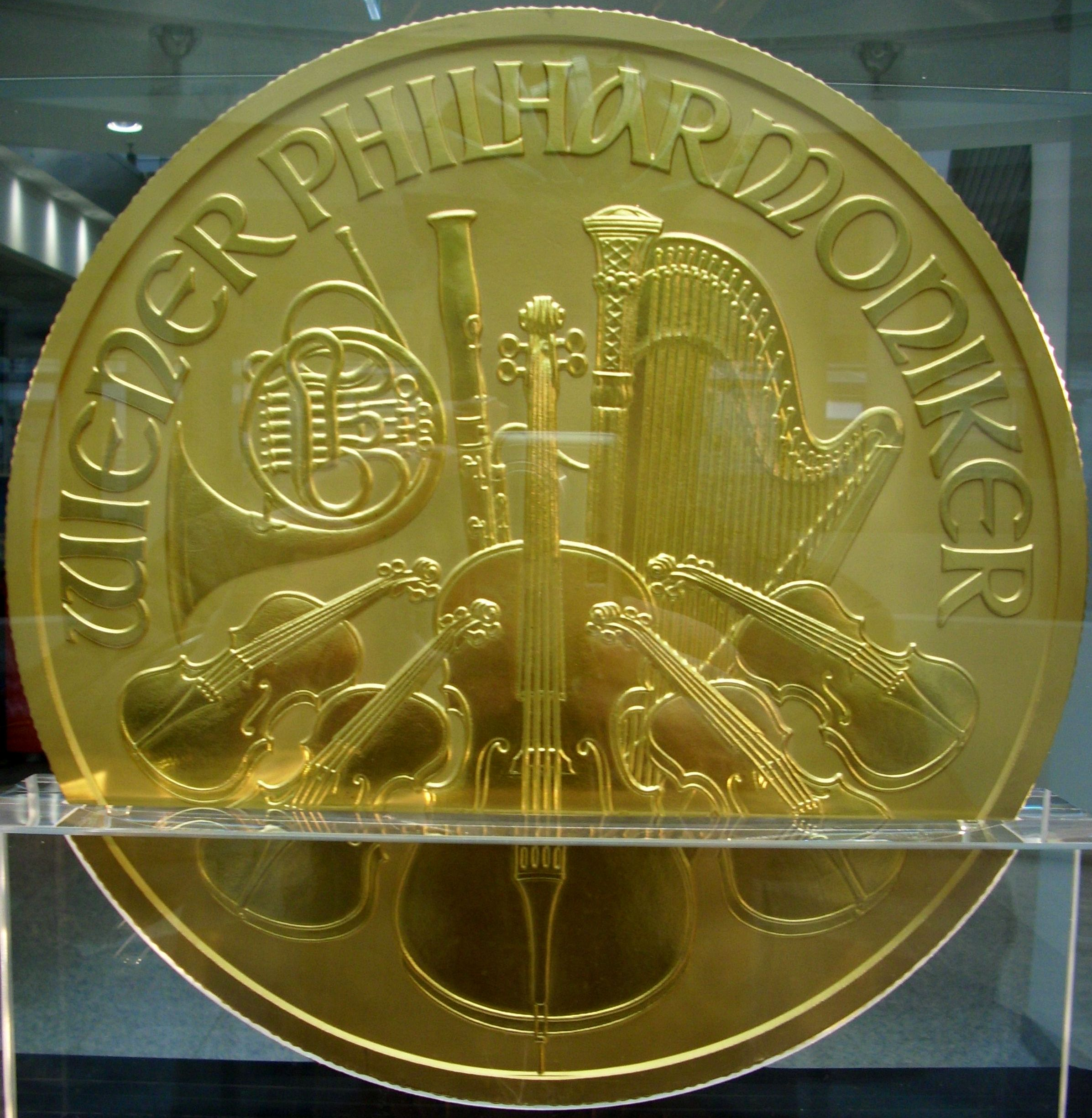 Greatest goldcoin of Europe